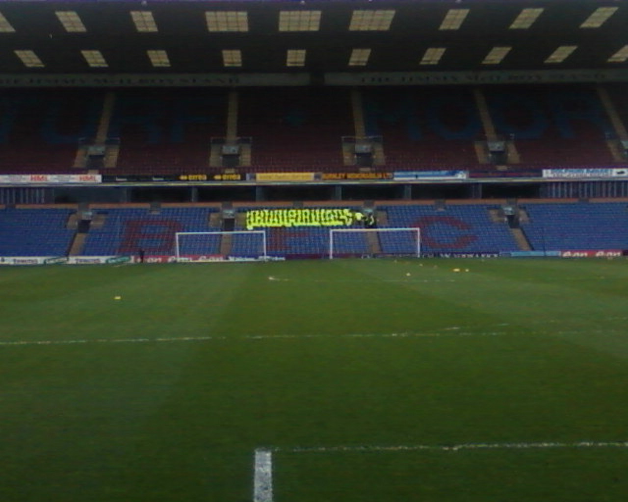 The Jimmy Mclroy stand at Turf Moor, Burnley. A group of stewards can be seen in the seats